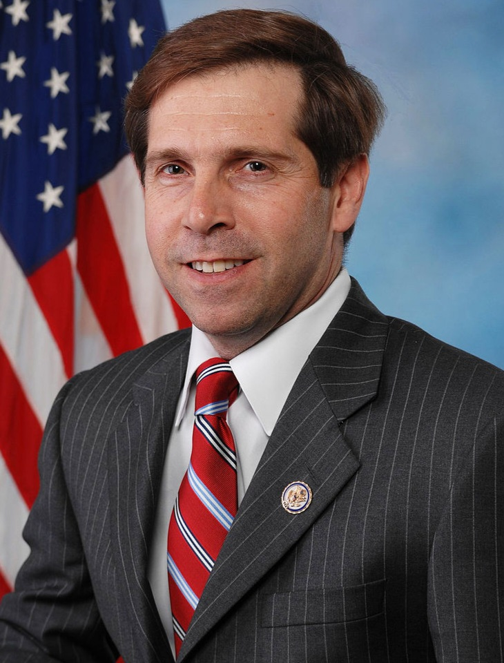 Official portrait of Rep. Chuck Flieschmann.